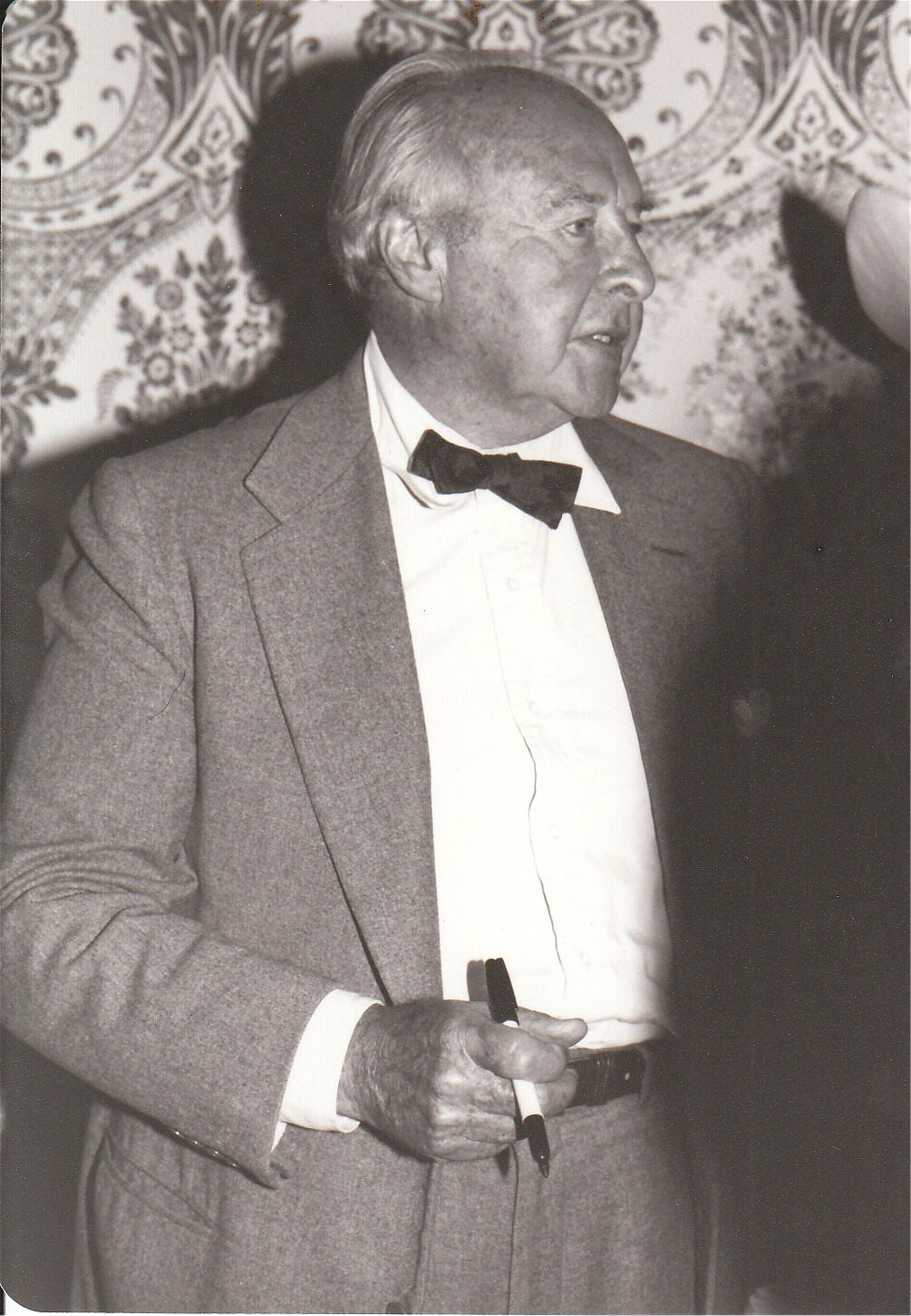 Actor John Houseman, May 1979, at the National Film Society convention in Los Angeles.